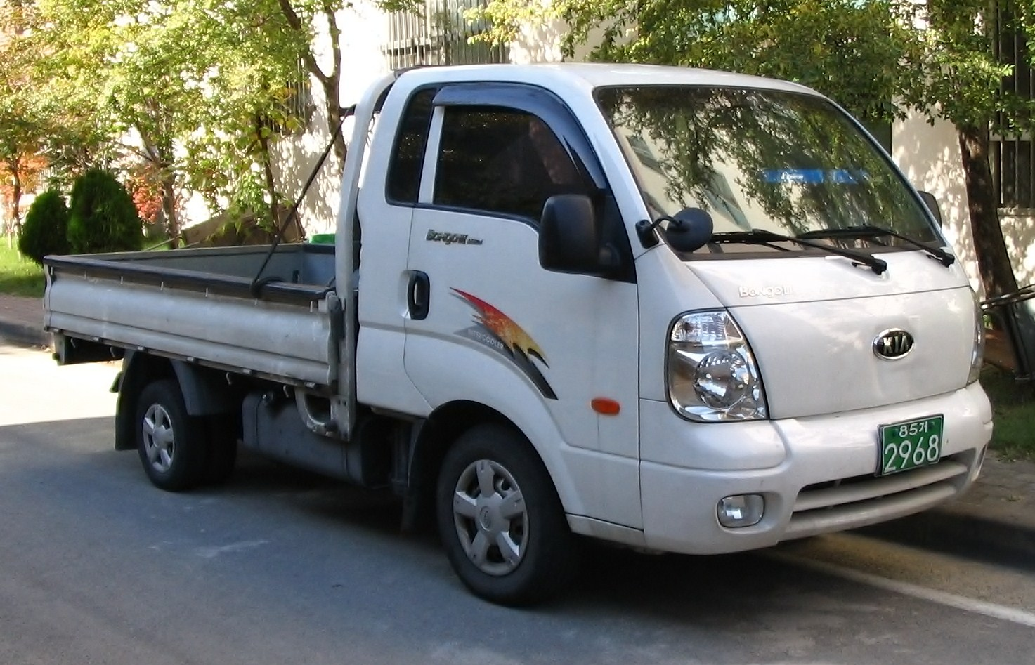 I took this picture myself in Pohang, South Korea on October 22, 2007.